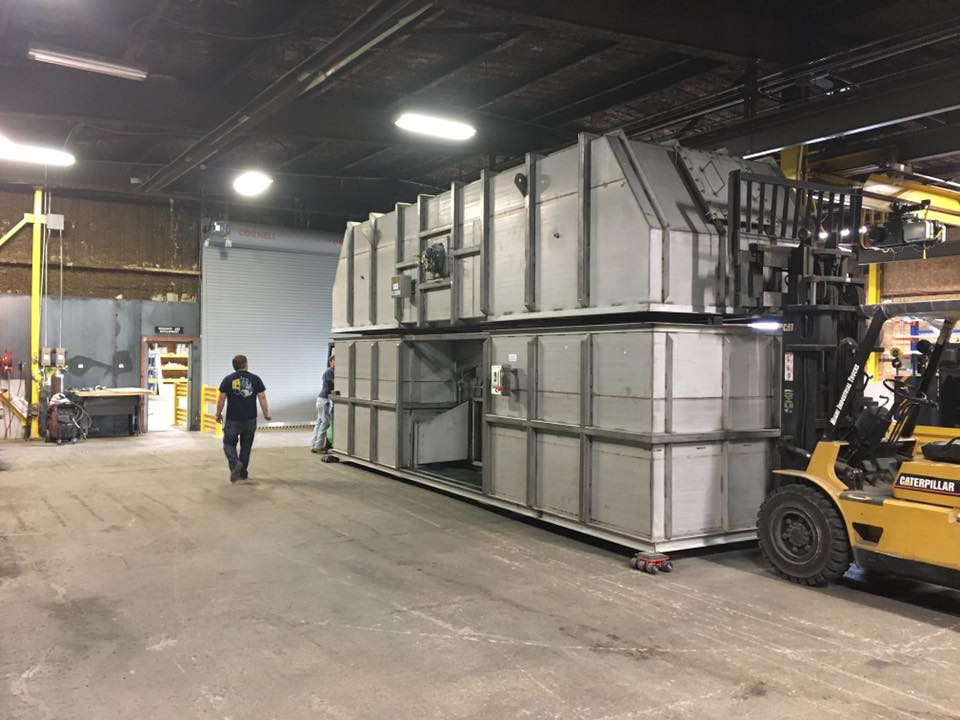 Regenerative thermal oxidizer manufacturing